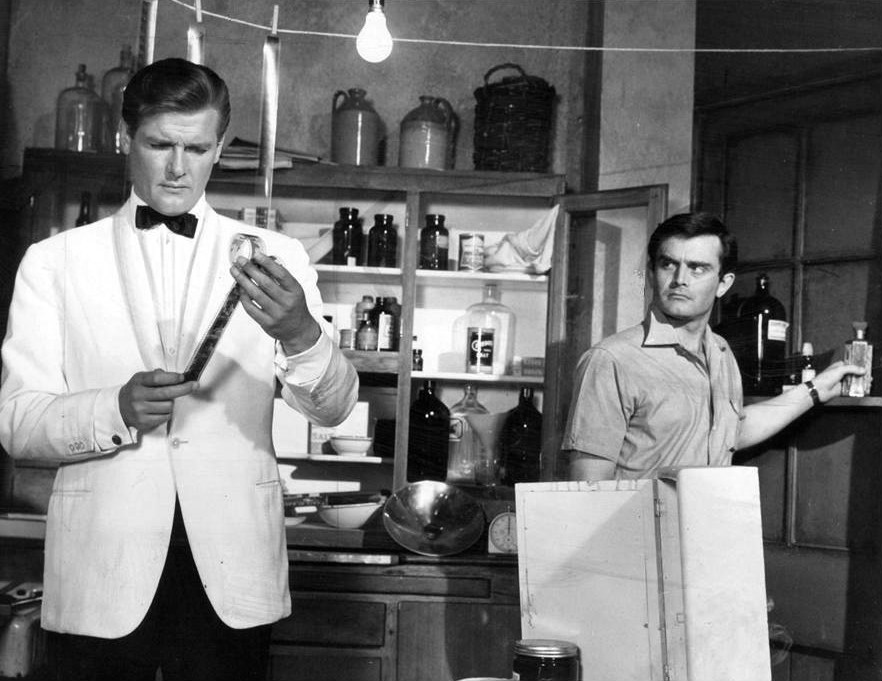 Publicity photo from the television program The Saint. Pictured are Roger Moore and Earl Green.